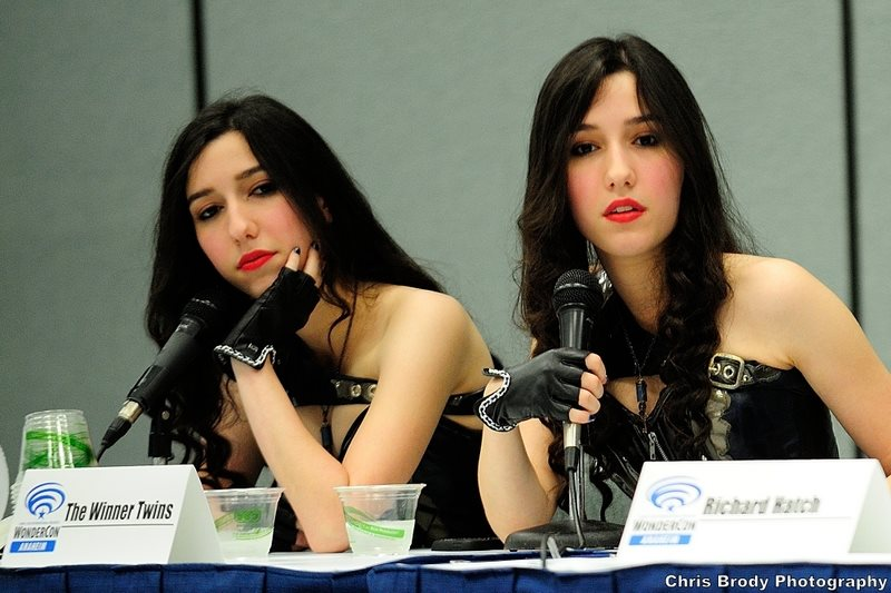 The Winner Twins, Brittany and Brianna Winner, at 2014 Wonder Con panel discussion.